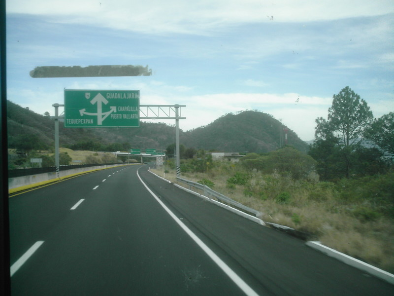 The Mexican Federal Highway 15D, going towards Guadalajara, near Ixtlán del Río, a town between Guadalajara and Tepic, in the state of Nayarit.